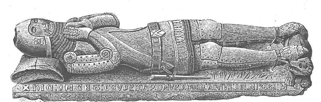 From Sir Stephen Glynne “Edited and Transcribed by Archdeacon D R Thomas)Notes on the Older Churches in the Four Welsh Dioceses, 1903.